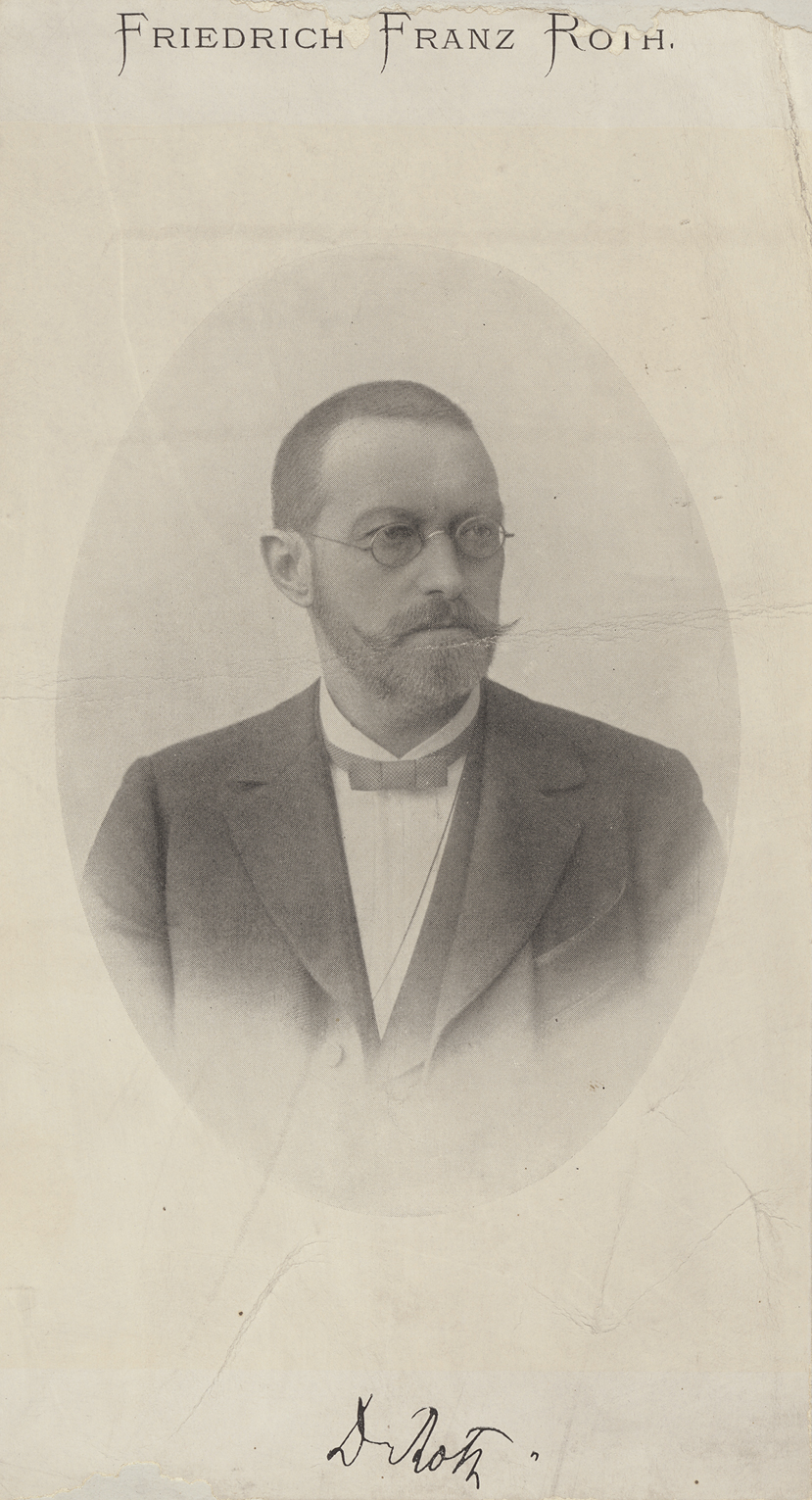 Friedrich Franz Roth